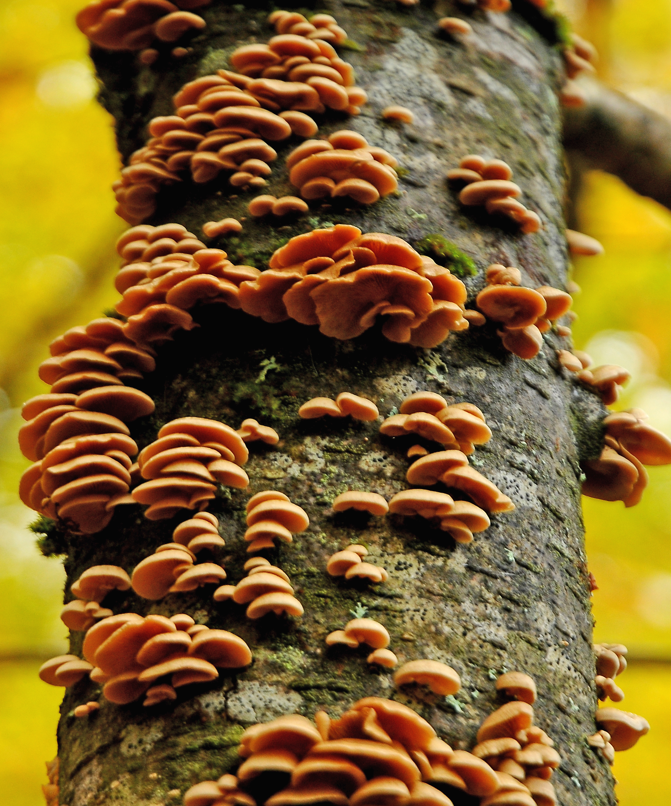 Mushrooms on a trunk. Jacques-Cartier National Park (Quebec, Canada)